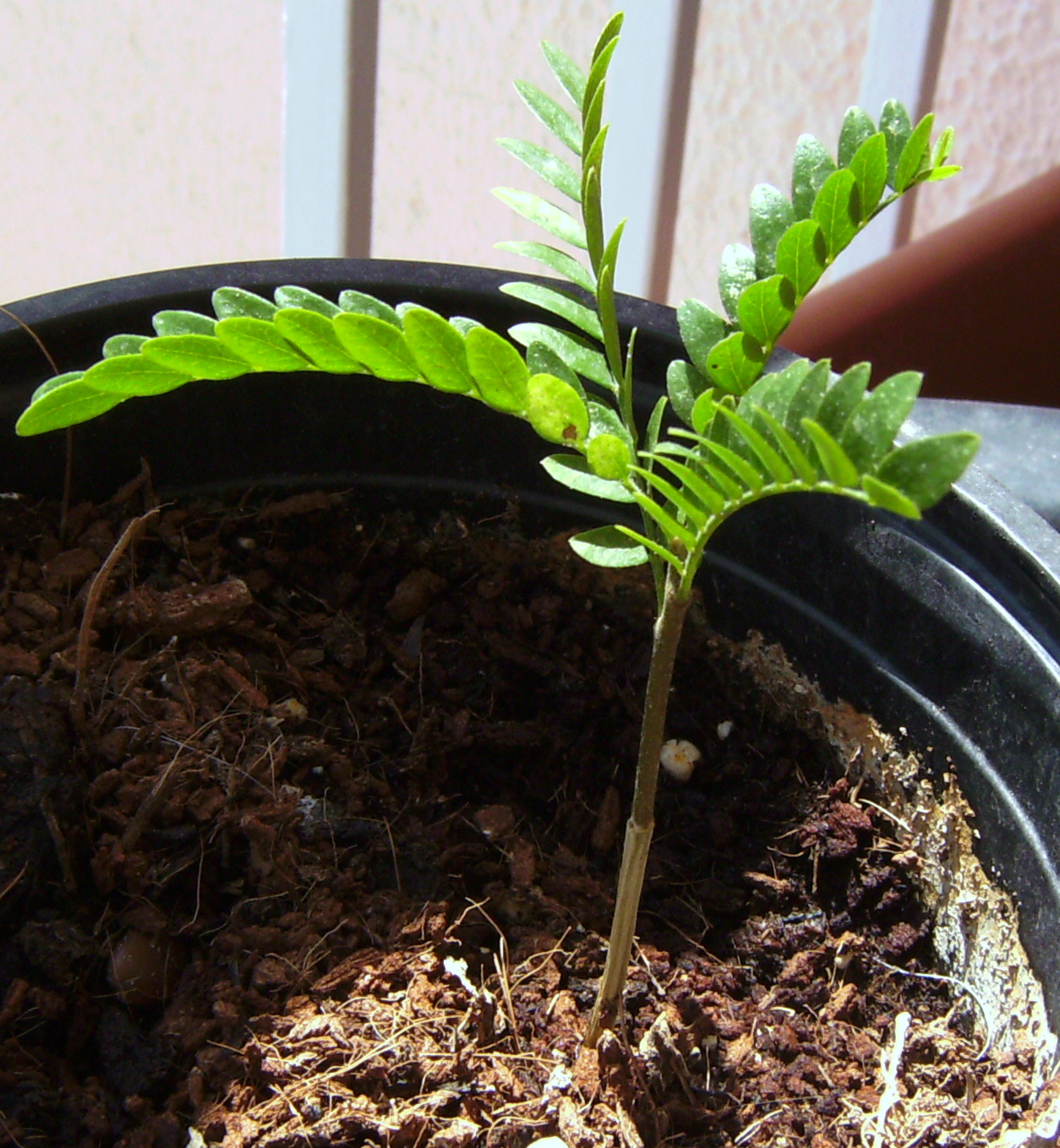 Ceratonia siliqua ("Garrofer") young cultivated plant from Barcelona, Catalonia